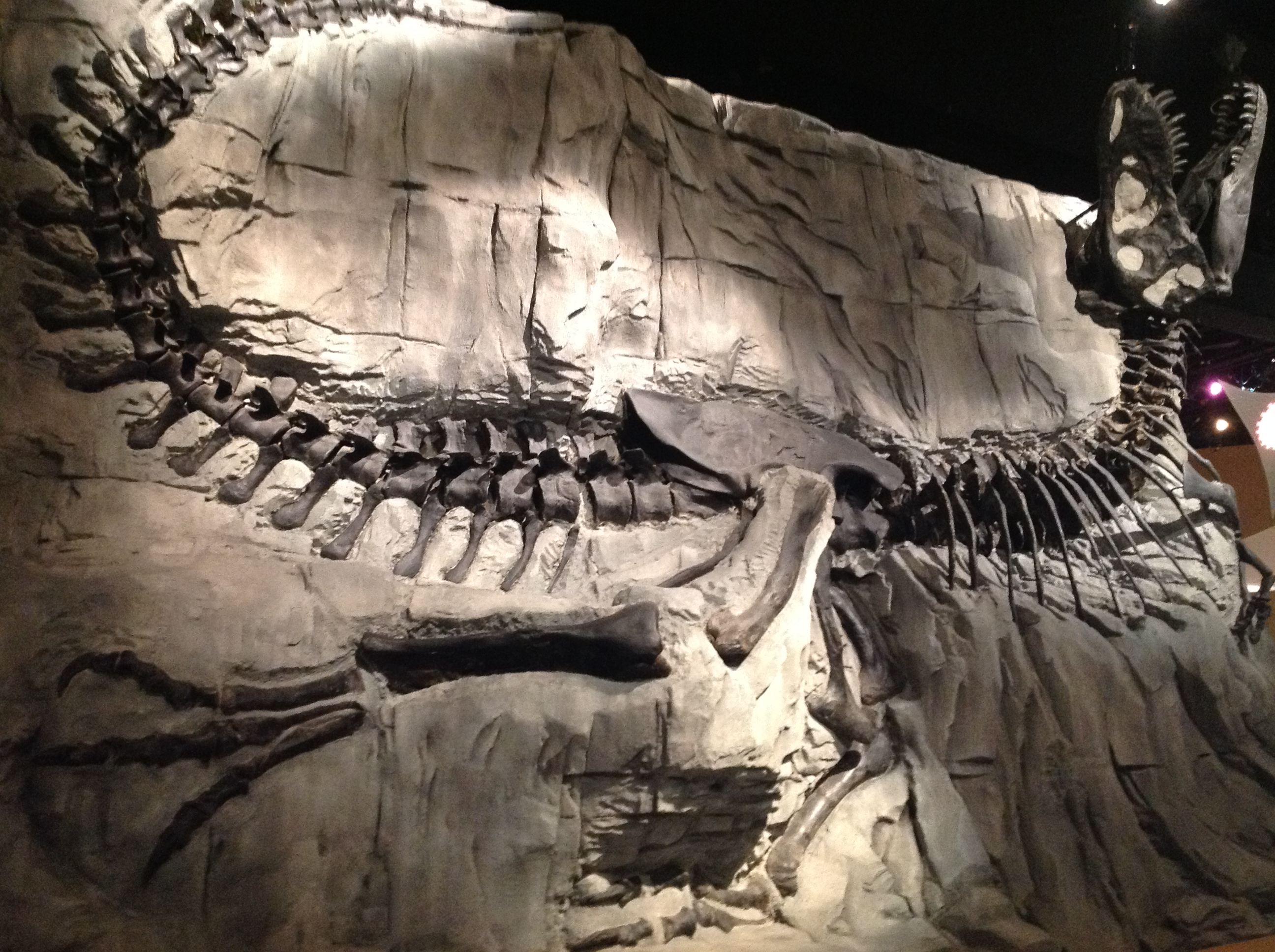 Black Beauty, Alberta, Canada